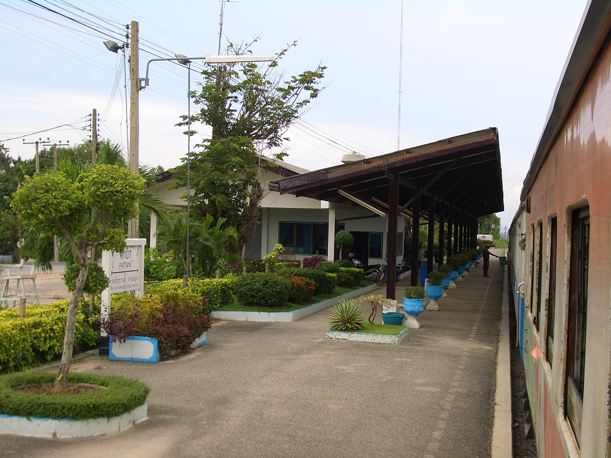 A local train (the only kind that comes there) at the Pattaya train station.